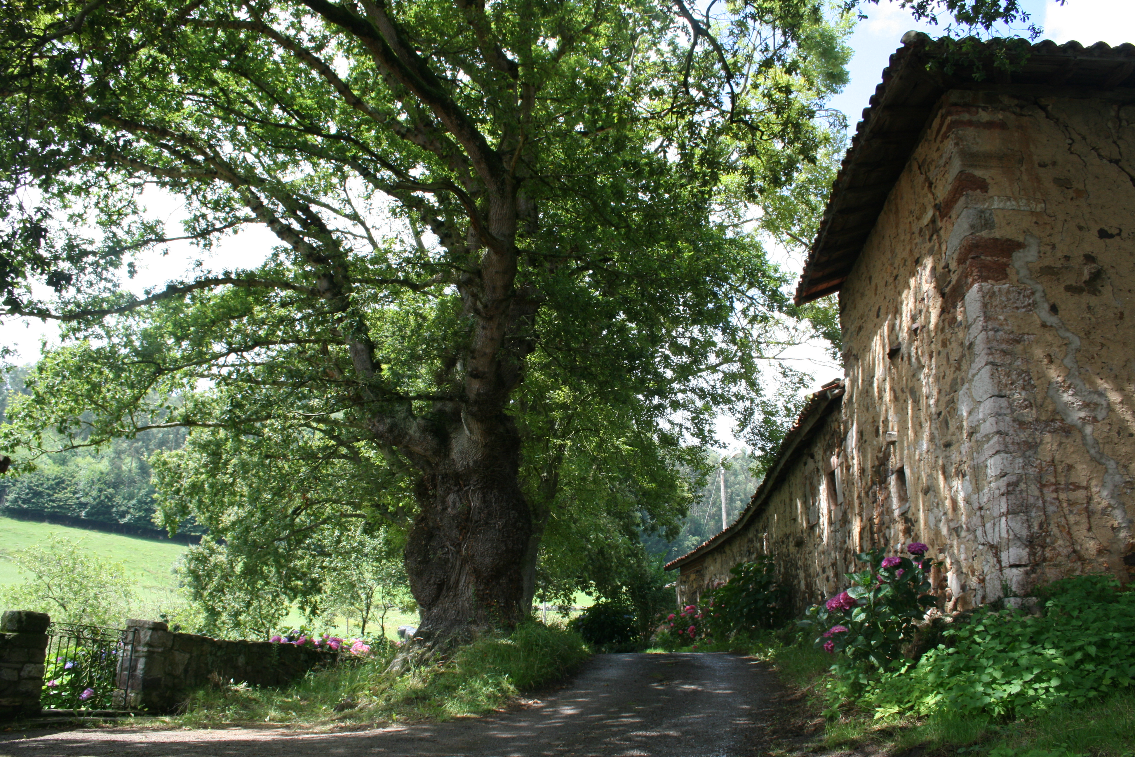 Barrio el Casorio, La Mortera (Candamo)